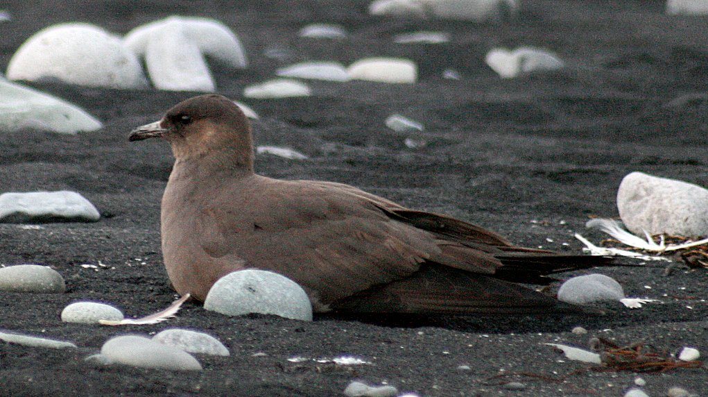 Arctic Skua near Jökulsarlon, Iceland, August 2008